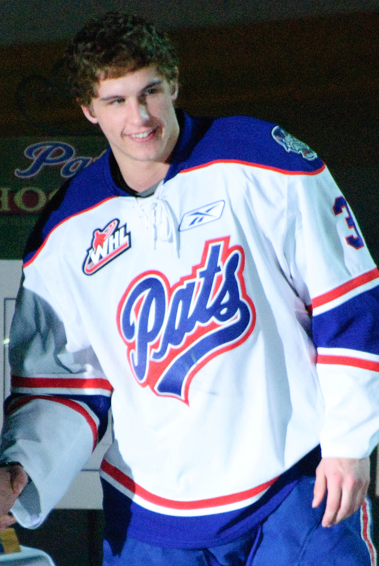 Davidson was named the team's Most Sportsmanlike player and the Top Defenseman.